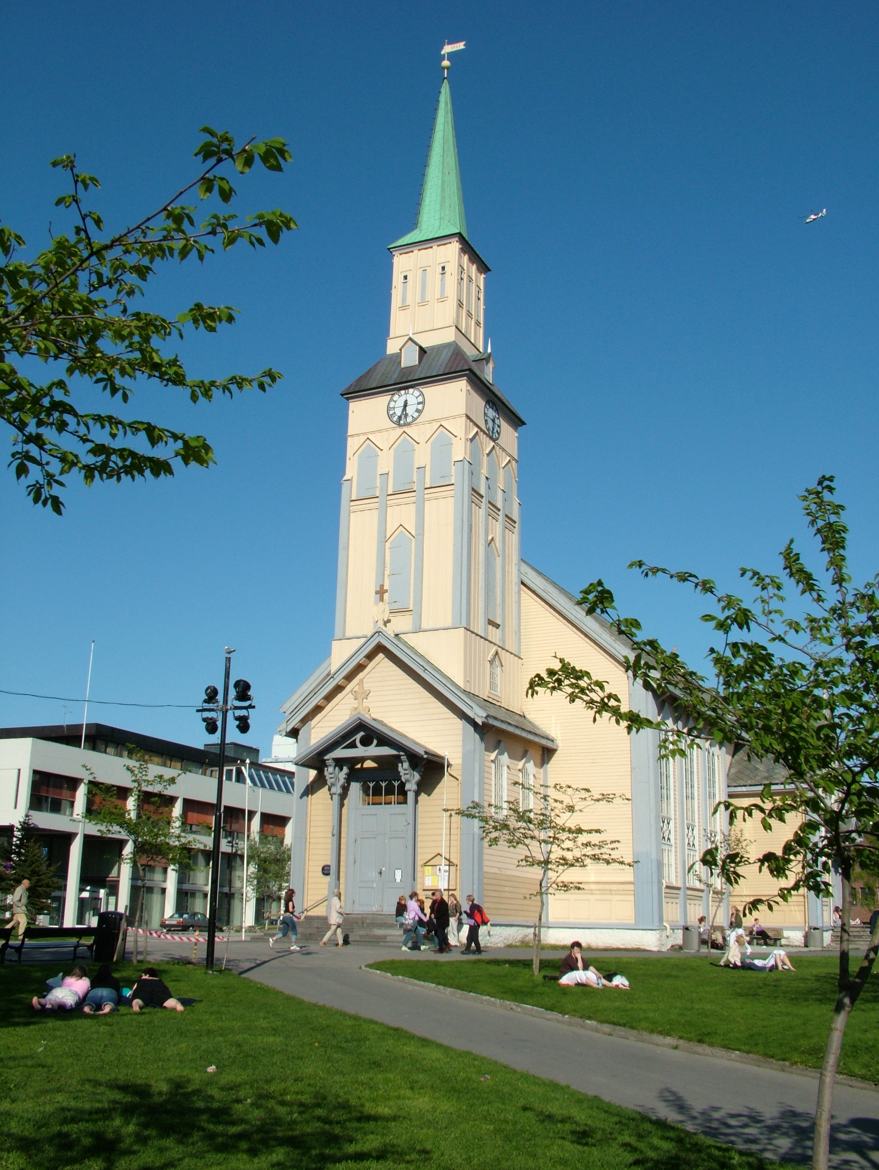 Tromsø North Norway, the main church